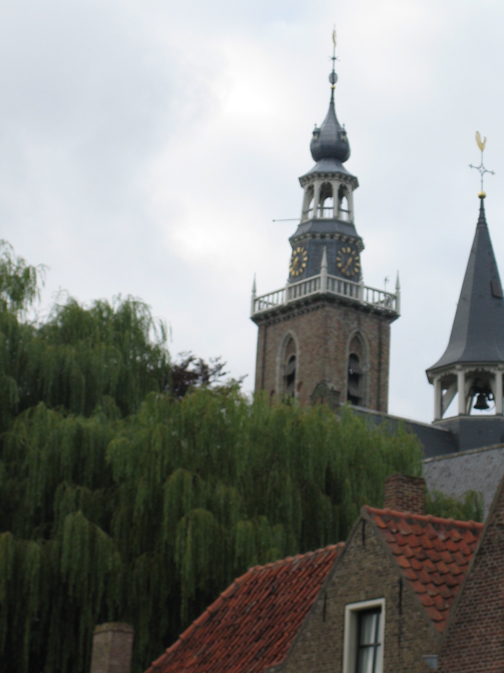 I took this picture myself in 2006 and hereby release it into the public domaine to the maximum extent possible under all relevant jurisdictions